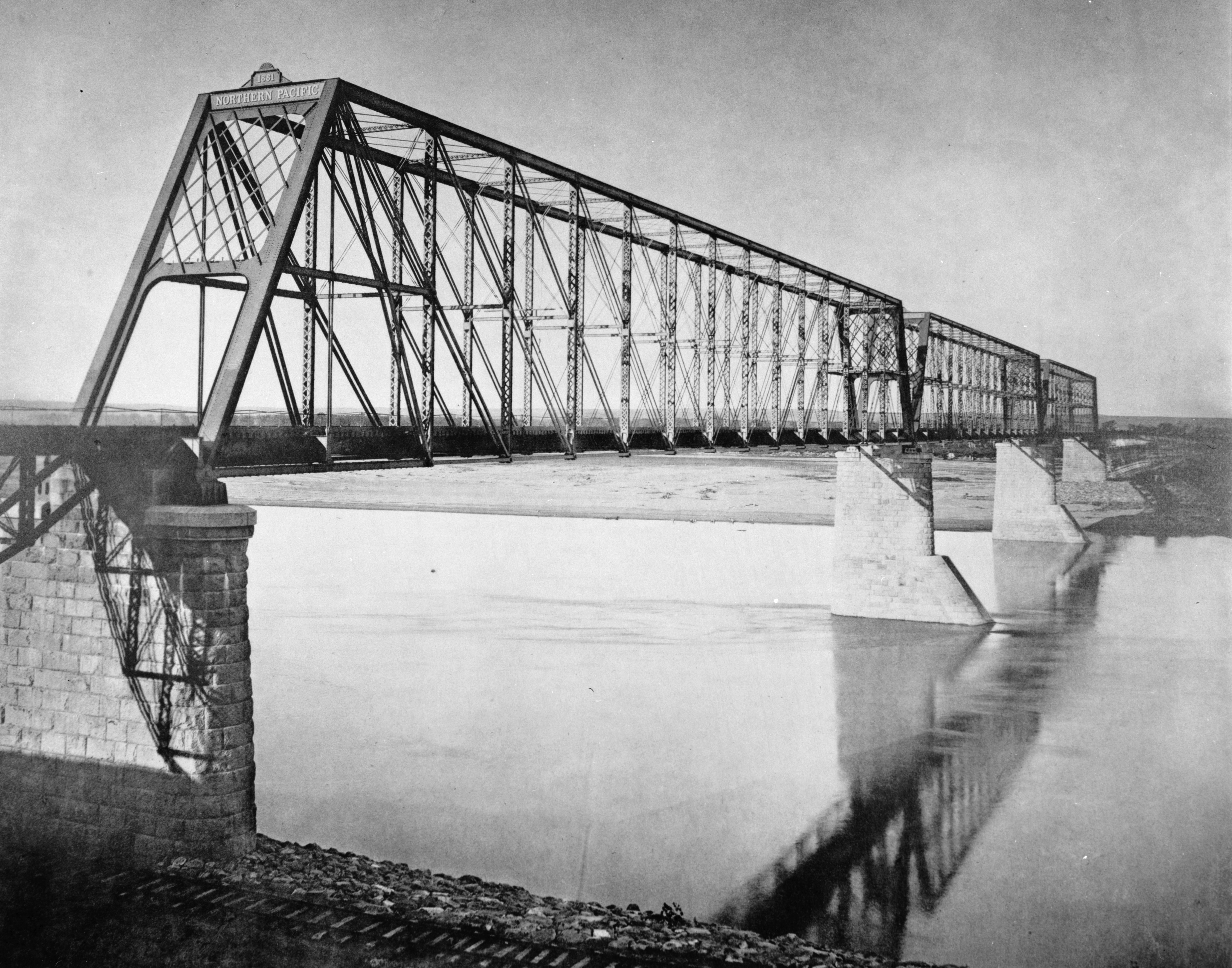 George S. Morison's The Bismark Bridge, 1883, ND HAER ND,8-BISMA,3-1 (Missouri River High Bridge)